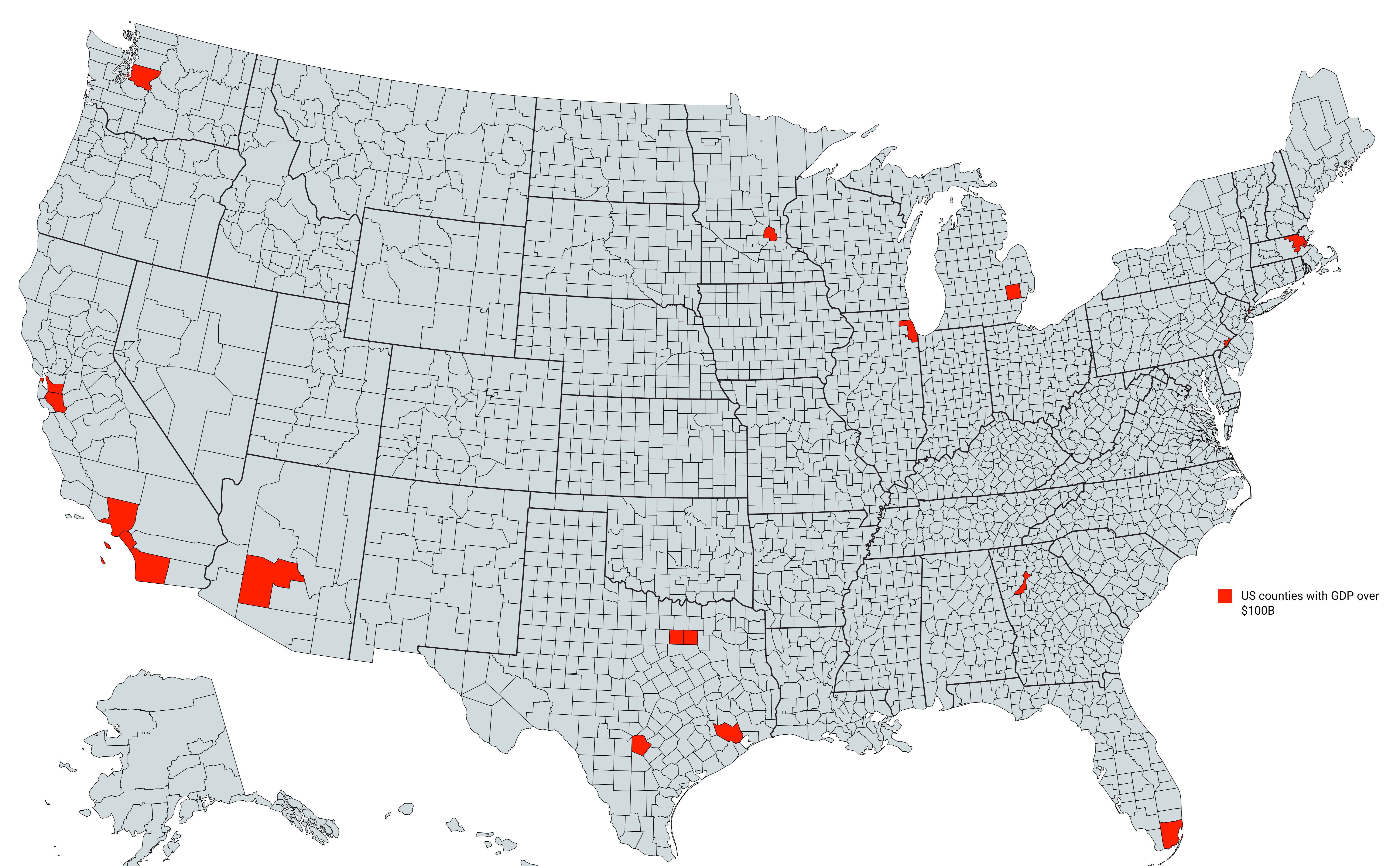 US counties with GDP over $100 billion (2015)